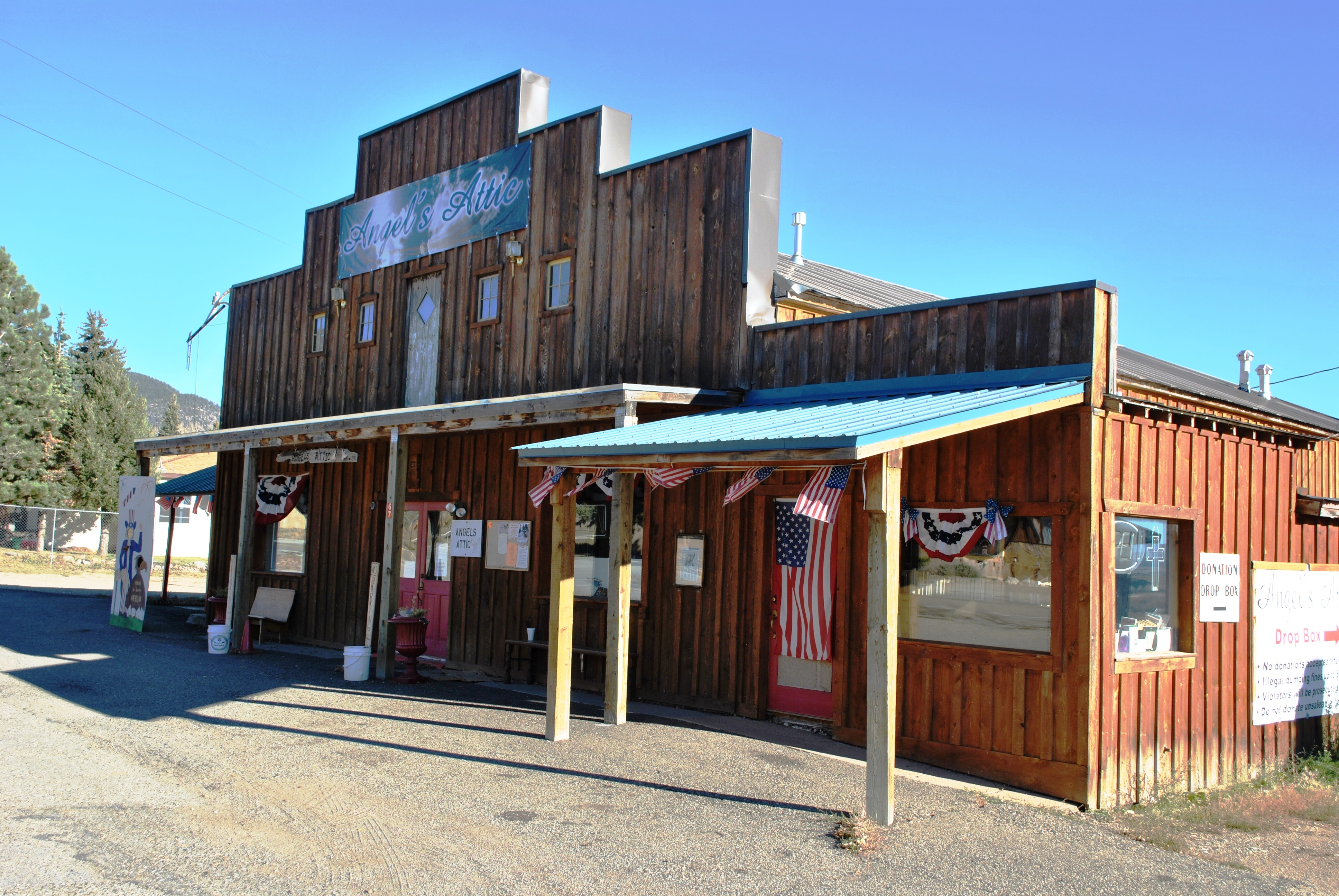 Eagle Nest, New Mexico